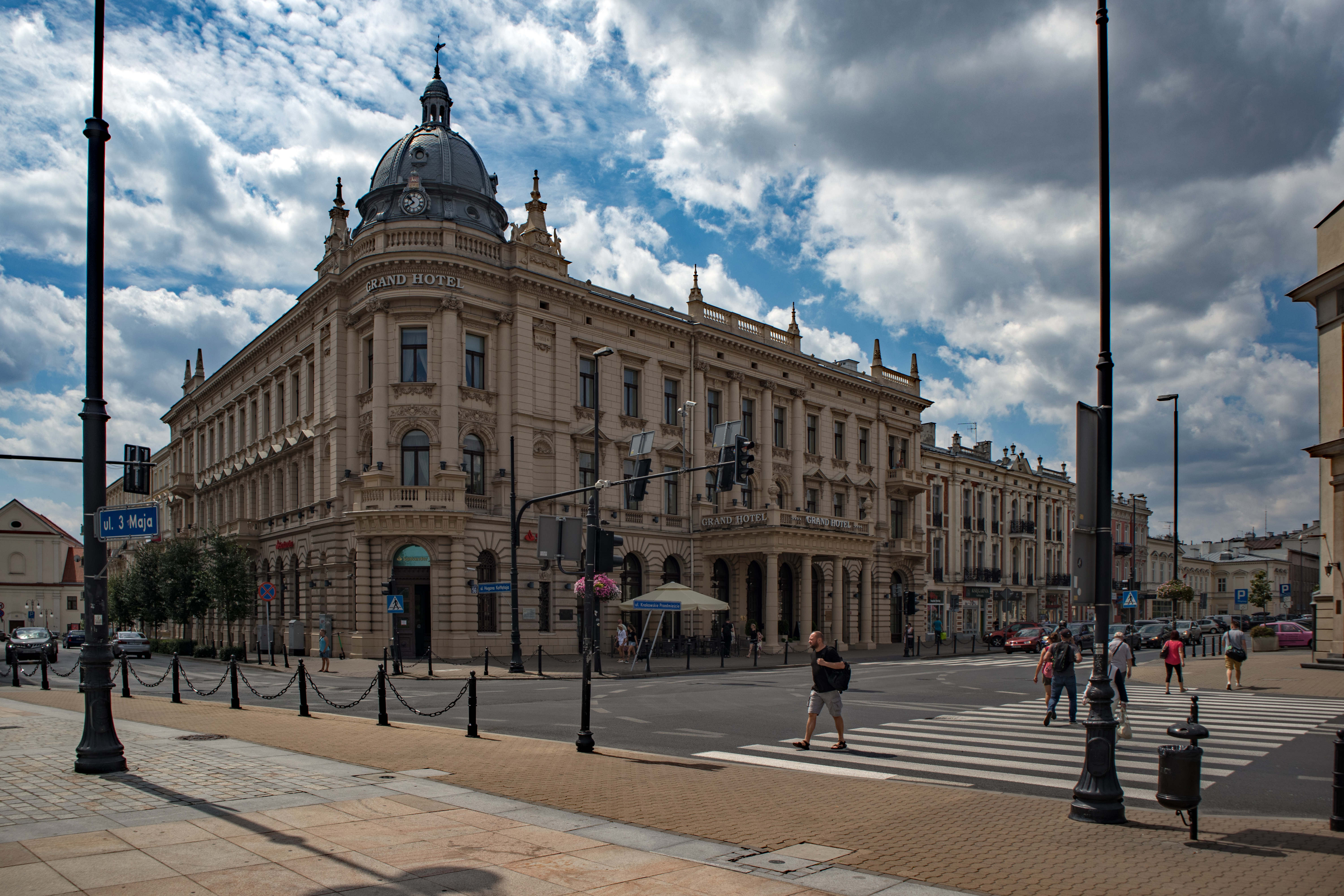 Grand Hotel, Krakowskie Przedmieście street in Lublin